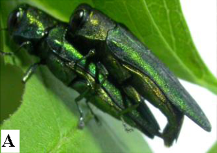 Mating of Agrilus planipennis (emerald ash borer).